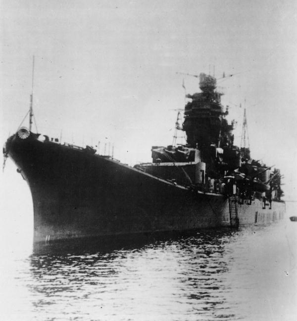 Oyodo, light cuiser of the Imperial Japanese Navy.